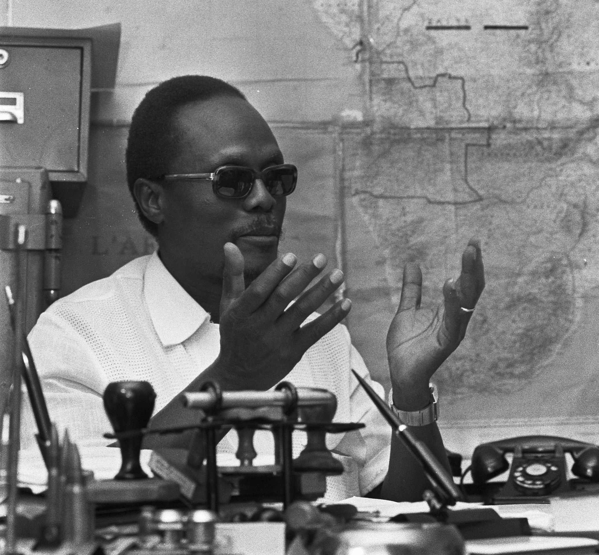 Holden Roberto, founder of the Angolan liberation movement Frente Nacional de Libertação de Angola (FNLA), and leader of the Revolutionary Angolan Government in Exile (GRAE) in Zaire in 1973